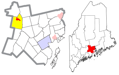 Map of the divisions of Waldo County, Maine, United States, with the census-designated place of Unity highlighted in red. The city of Belfast is light blue; the town of Unity, of which the census-designated place is a part, is yellow; other towns are white; and pink areas are census-designated places within other towns.